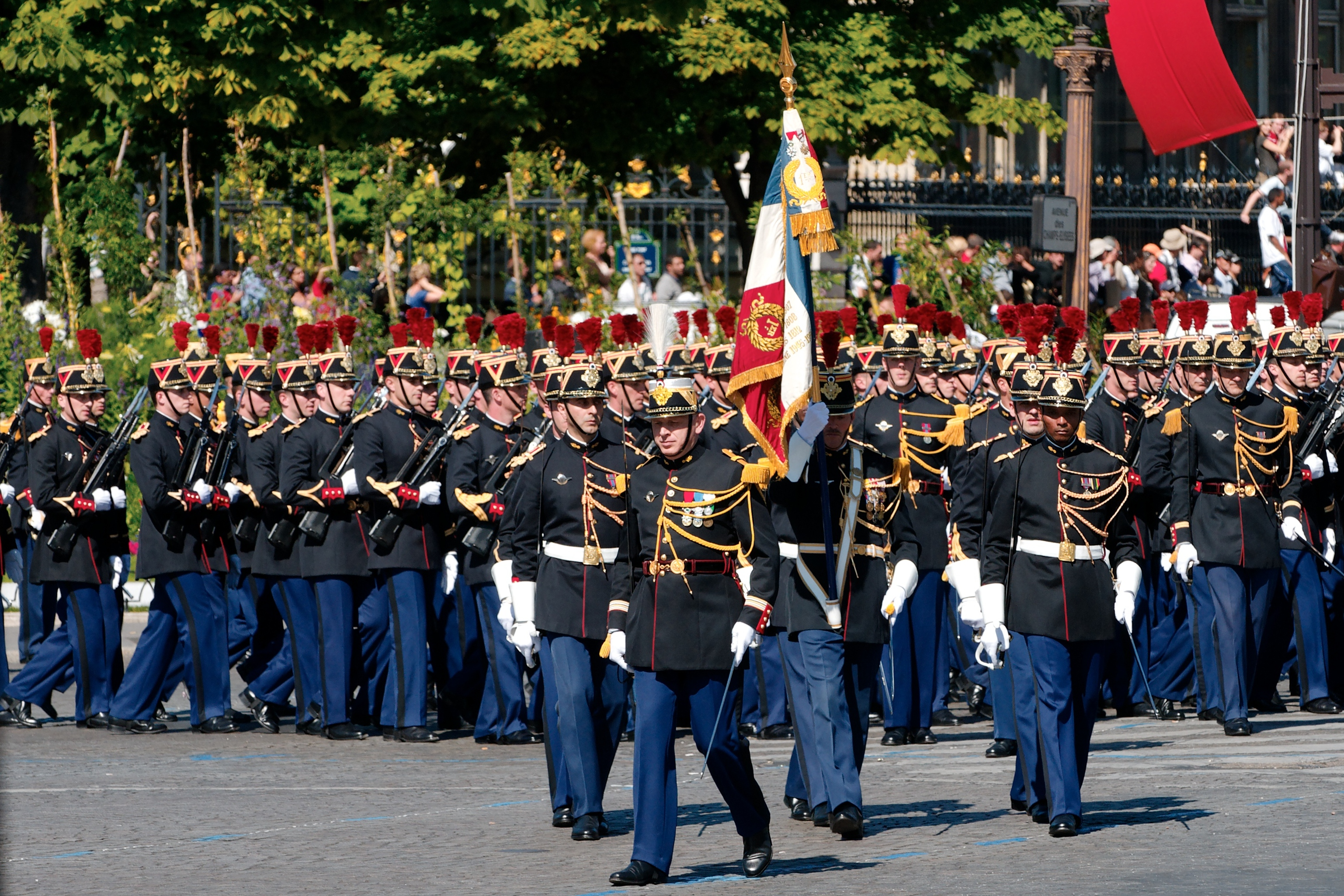 Colour guard of the 1st Infantry of the Garde Républicaine, Bastille Day 2008 military parade on the Champs-Élysées, Paris. Leading the unit, Lt-Colonel Pierre Rocchi, commanding officer.